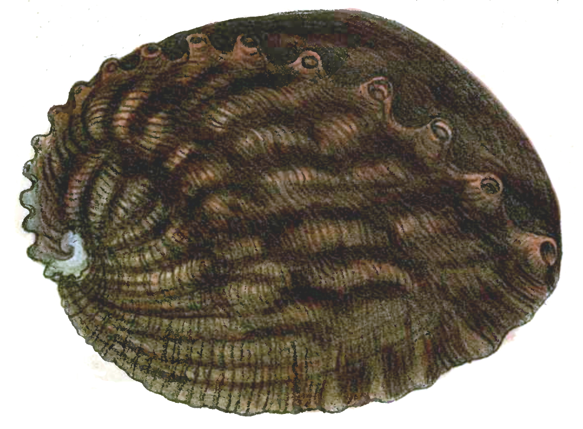 Haliotis gigantea Gmelin, 1791; family Haliotidae